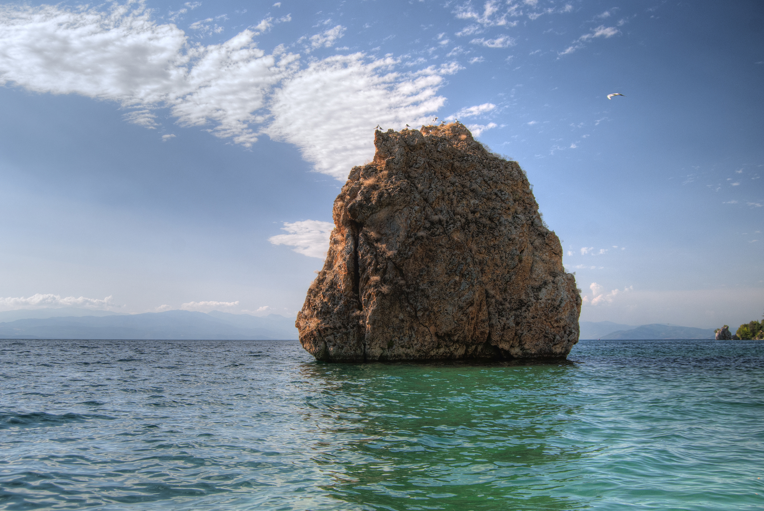 Cliff in the Lake Ohrid near the village Trpejca